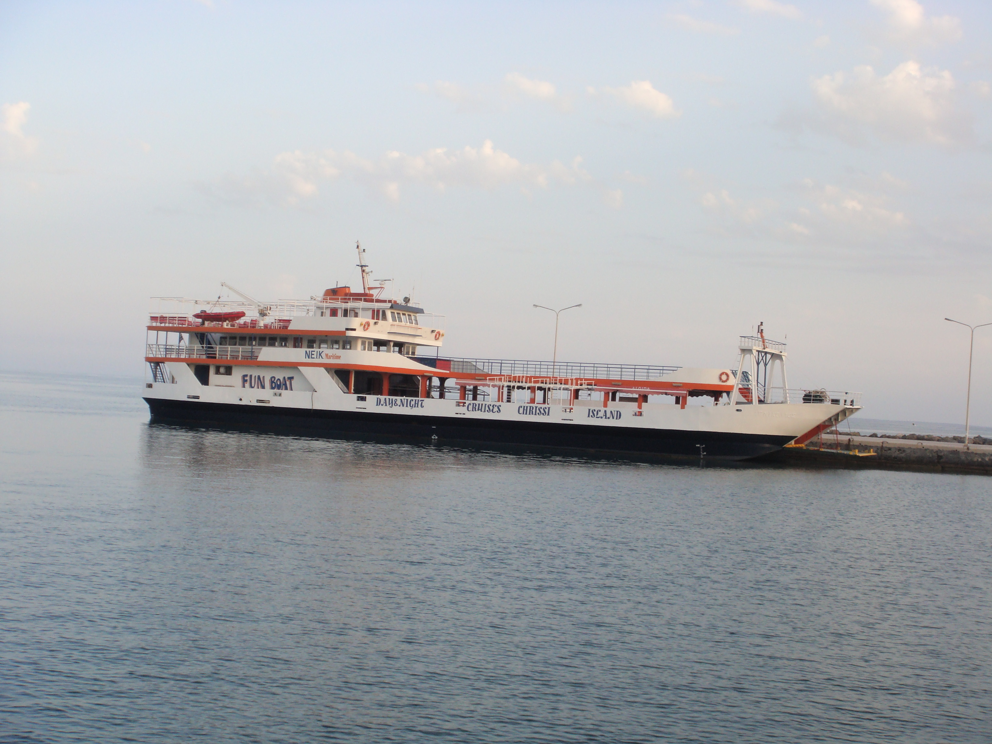 A boat for cruises destined to island of Chrissi, Ierapetra, Lasithi Prefecture.